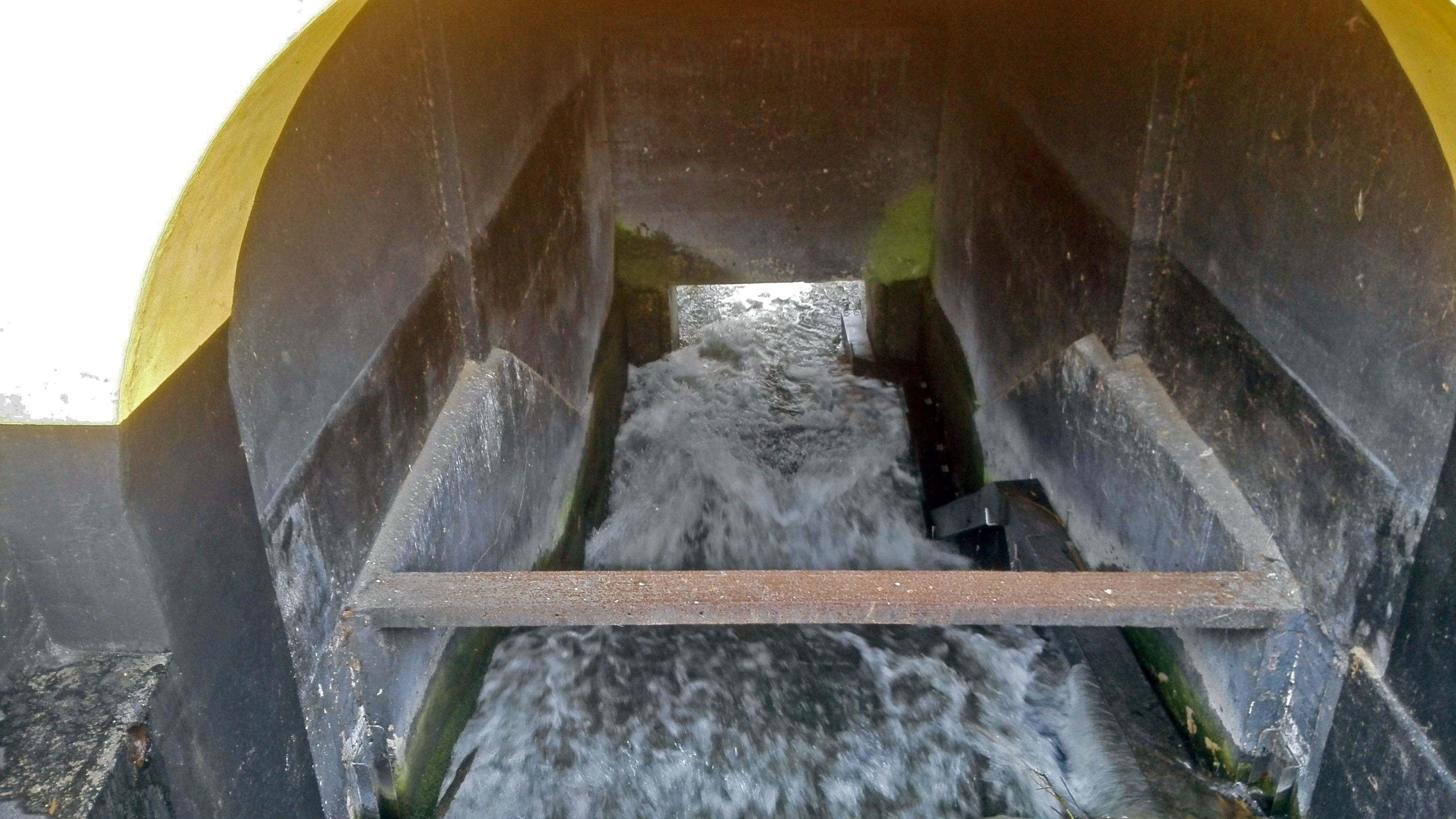 Height difference of the Mølleå at Nymølle